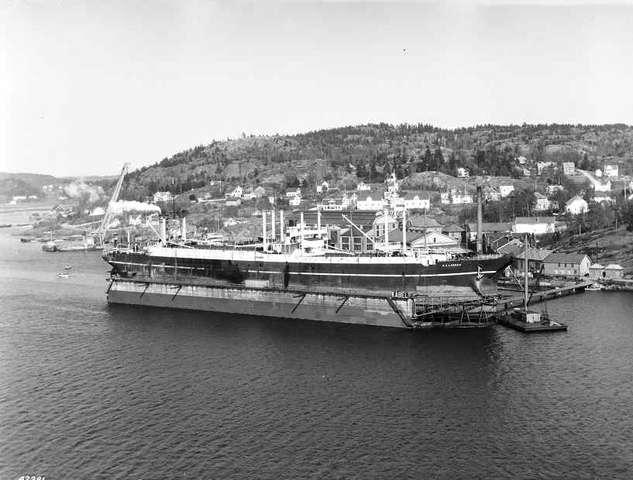 Norwegian whaling factory C. A. Larsen in Sandefjord. Ex. SS St. San Gregorio (1913) Norsk (bokmål): Flytende hvalkokeri «C. A. Larsen» i Sandefjord.